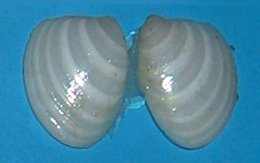 Crop of file in filename